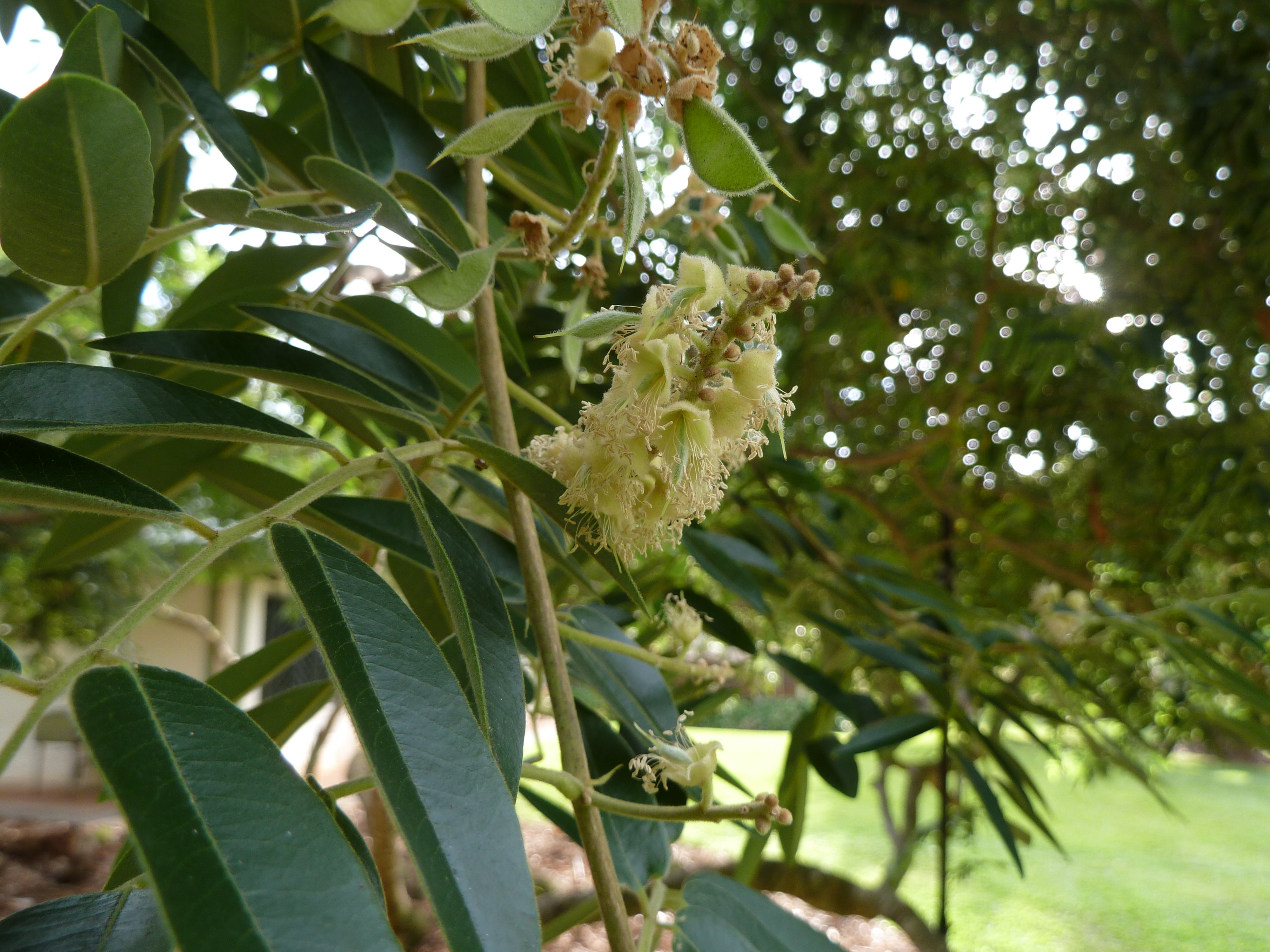 Cyathostegia mathewsii at Foster Botanical Garden in Honolulu, HI, USA